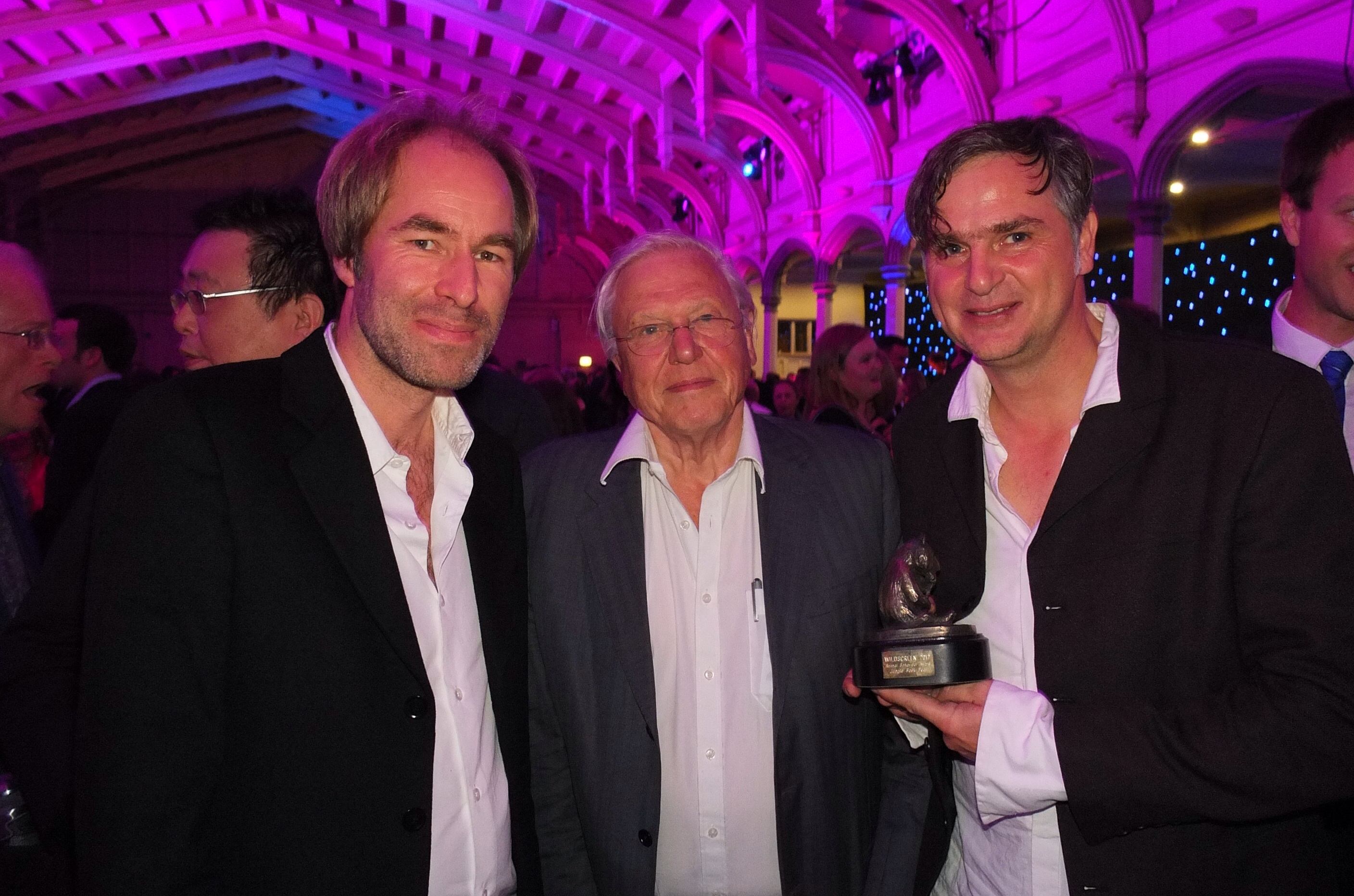 WILDSCREEN 2012: Animal Behaviour Award für "JUNGLE BOOK BEAR"; Oliver Goetzl (rechts), Ivo Nörenberg (links) mit Sir David Attenborough (Sprecher von Jungle Book Bear)